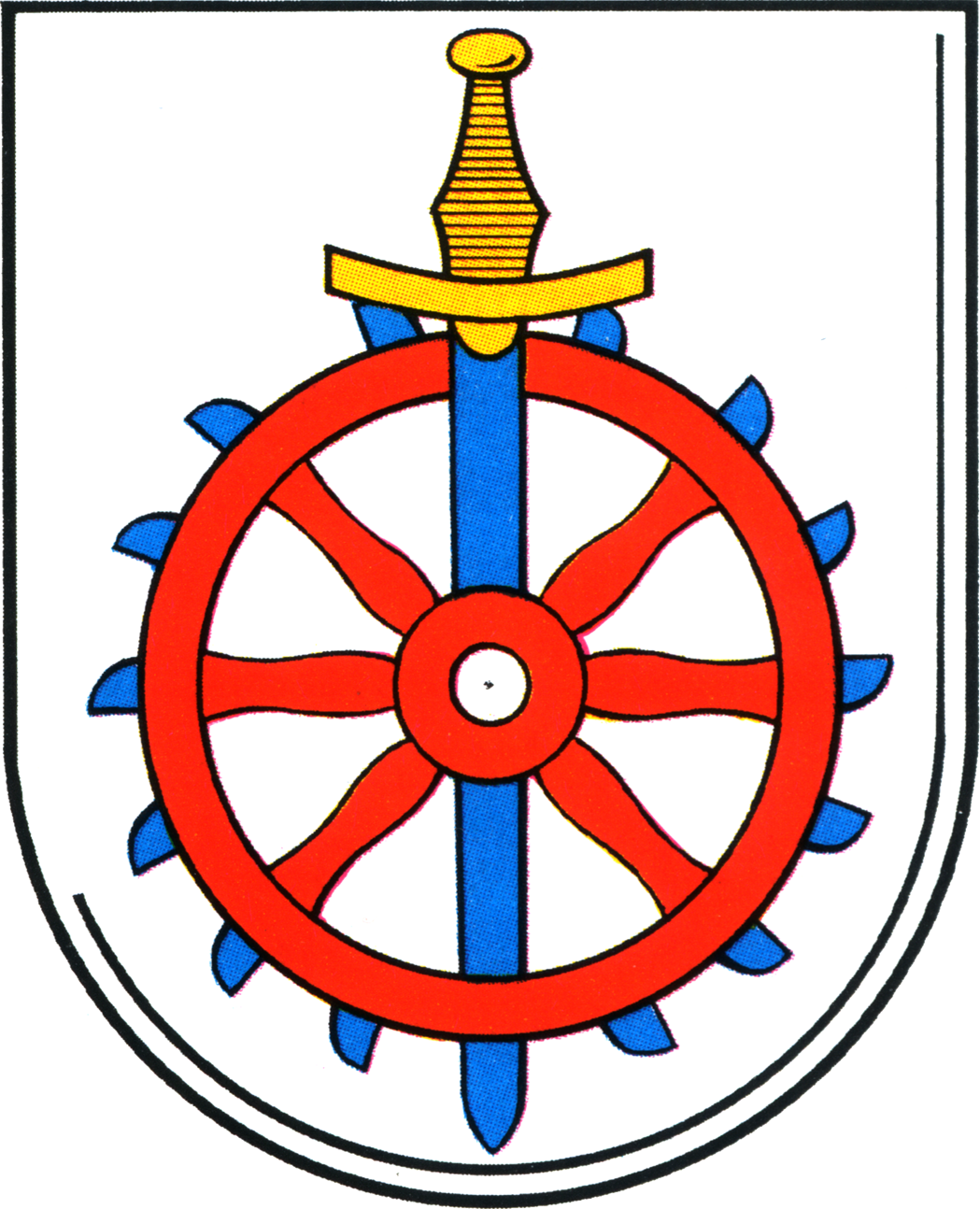 Coat of arms of Weißensee.